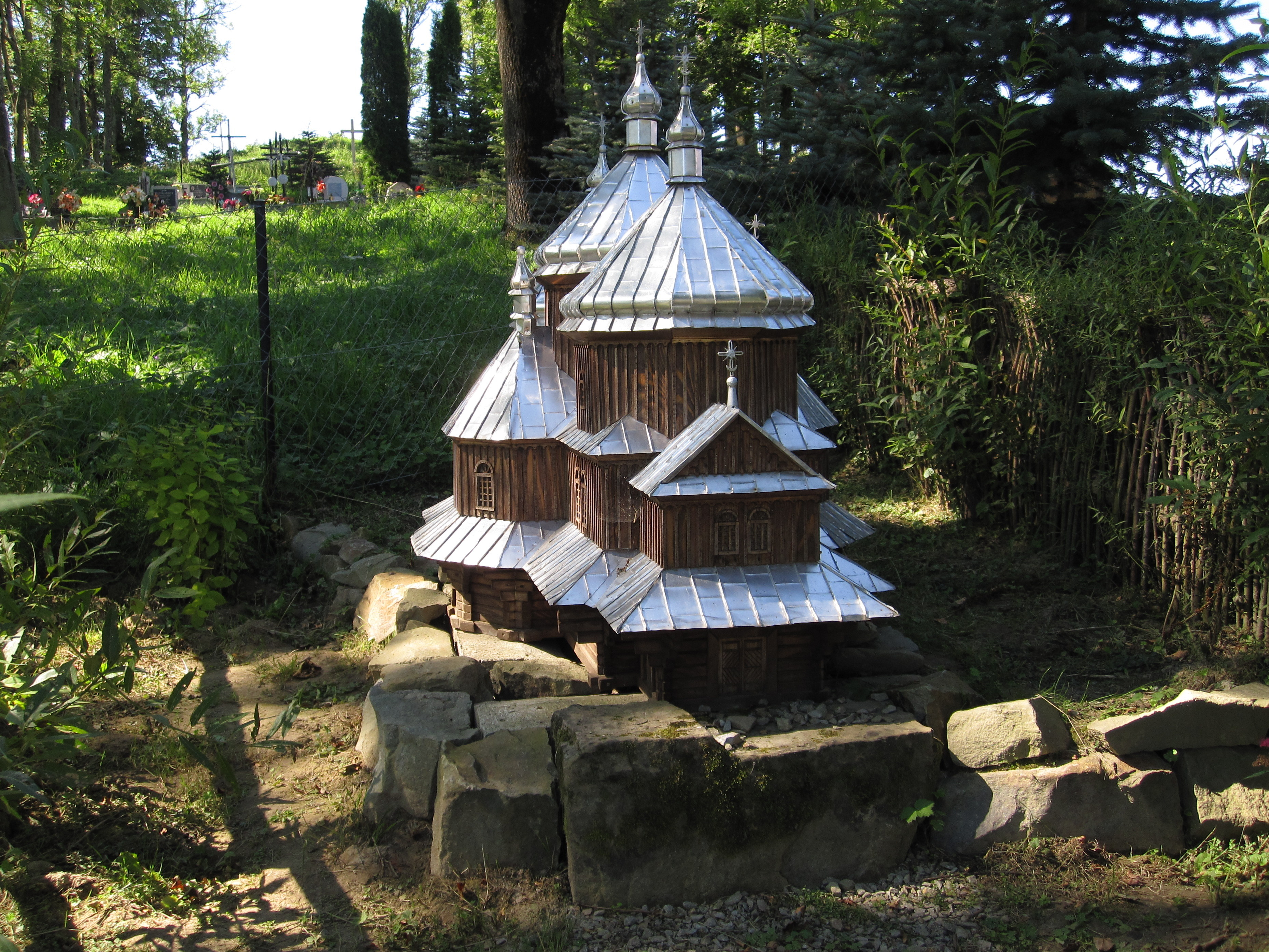 Lutowiska. A model representing an orthodox church which used to stand here till 1980